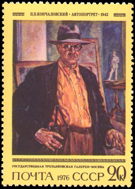 Pyotr Konchalovsky. "Self-portrait". 1943. 1976 USSR Stamp